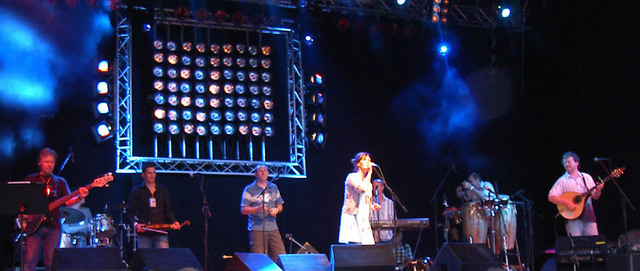 Bardentreffen Nürnberg 2005: Capercaillie - Photo taken at the free musik festival "Bardentreffen" 2005 at Nuremberg (Germany). Cut out from original image by Kordas.